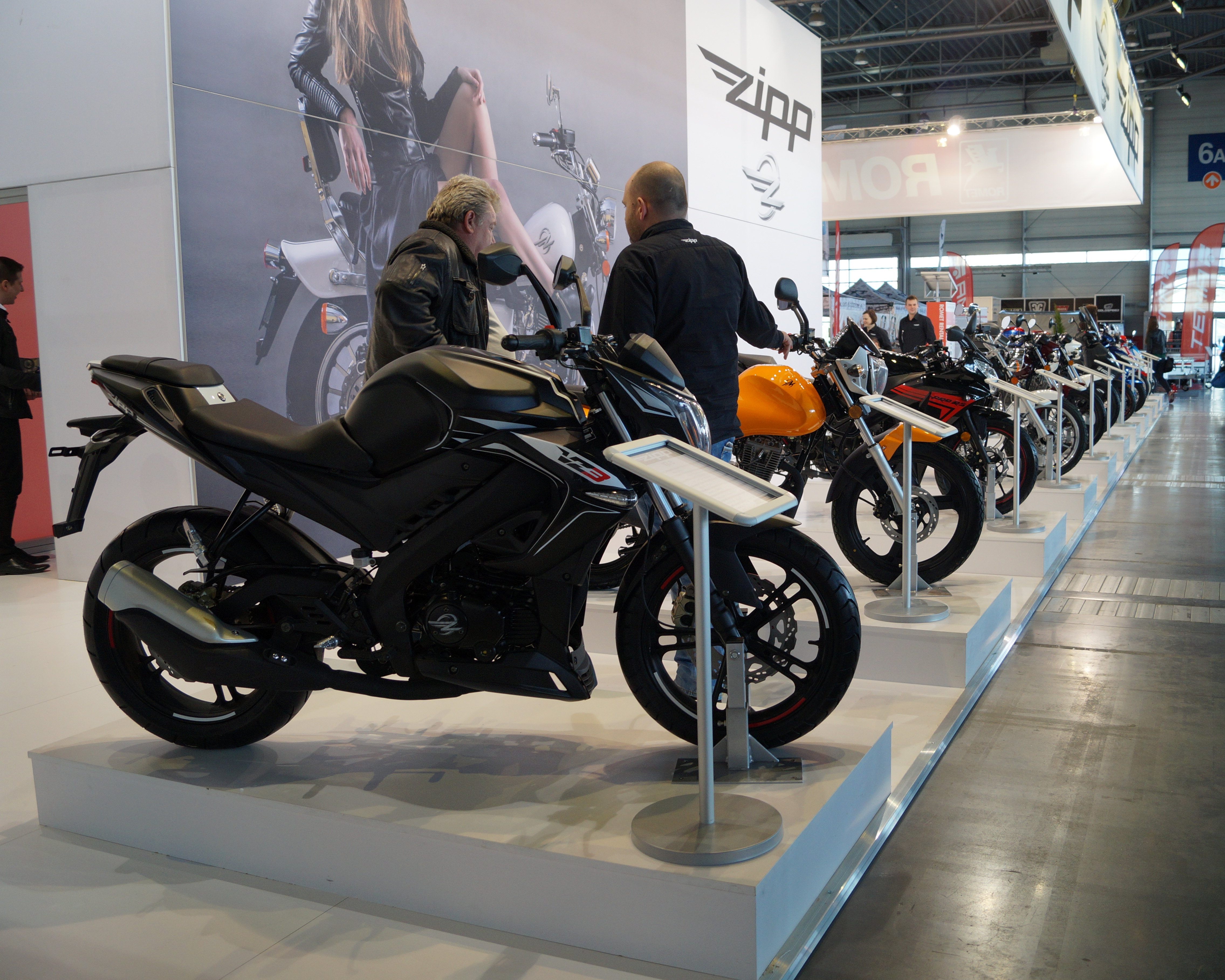 The making of this document was supported by Wikimedia Polska Association, within Wikigrant no. WG 2015-19. English | polski | +/− Stanowisko Zipp na Motor Show Poznań 2015